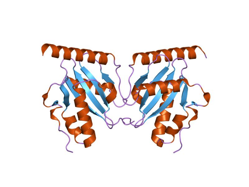 Cartoon representation of the molecular structure of protein registered with 1wmi code.